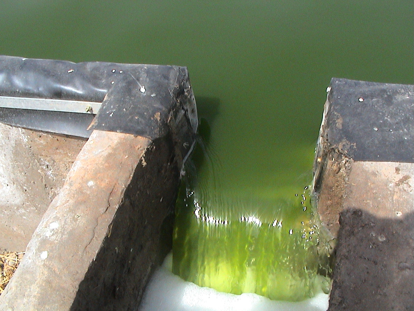 Effluent from RAFADE Réutilisation des eaux usées traitées (from Rafade process followed by a high rate algae pond and by two maturation ponds) à Attaouia - irrigation de surface. Source: Bouchaib El Hamouri (2003)